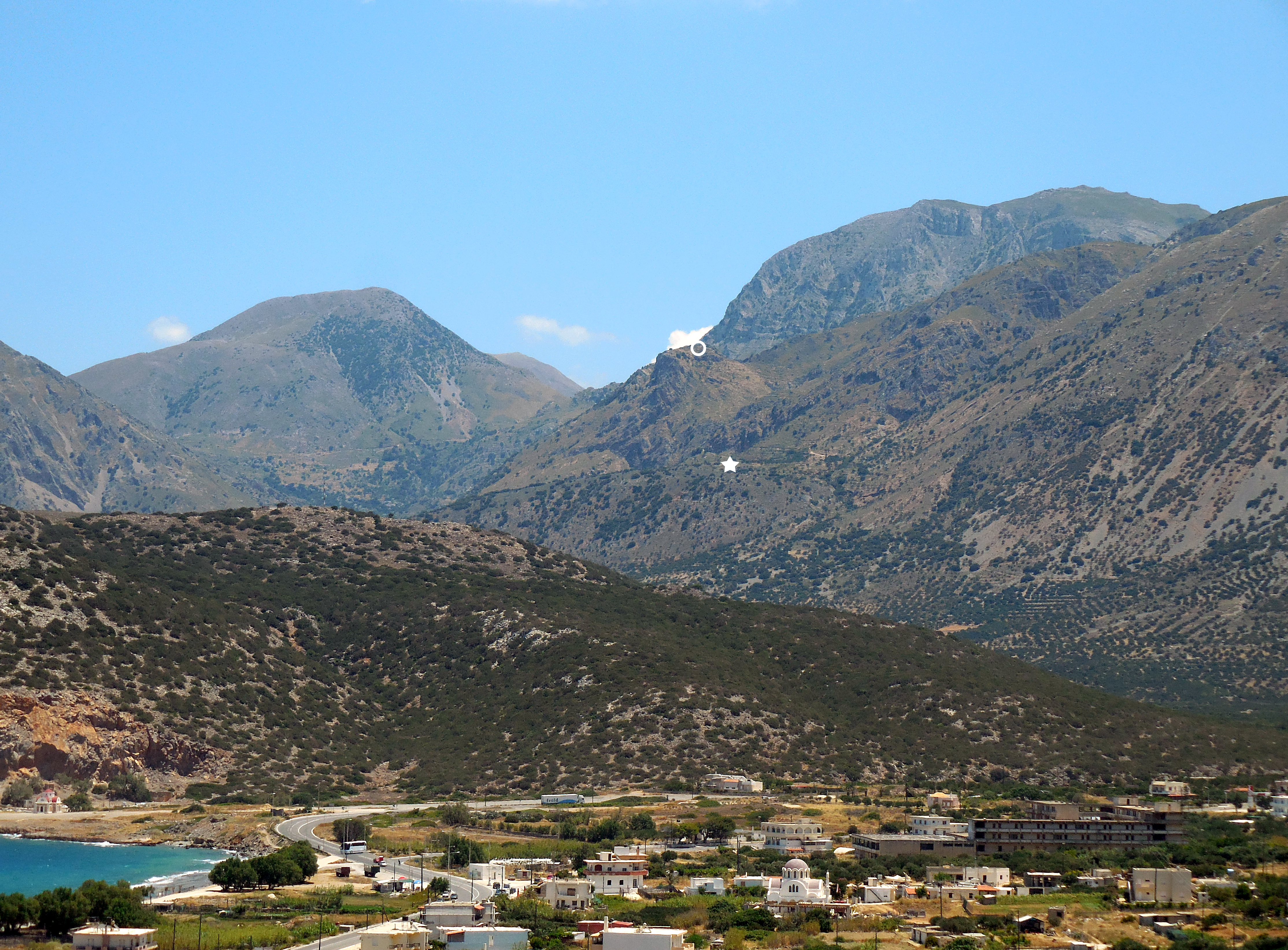 View of Kavousi Vronda from the west (Institute for Aegean Prehistory Study Center for East Crete) (2014). The location of the archaeological site is indicated by a star.